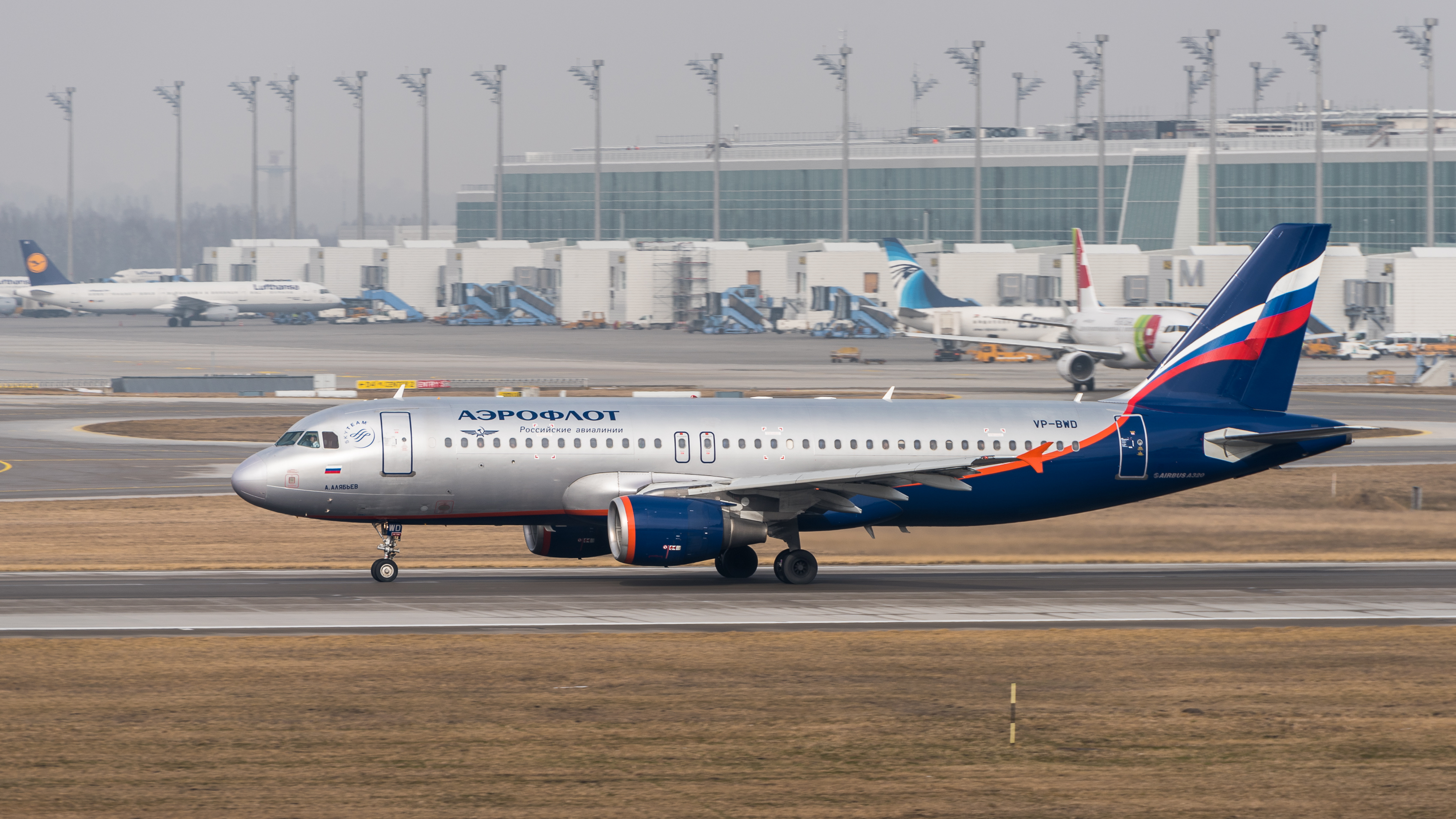 Aeroflot - Russian Airlines Airbus A320-214 (reg. VP-BWD) at Munich Airport (IATA: MUC; ICAO: EDDM).